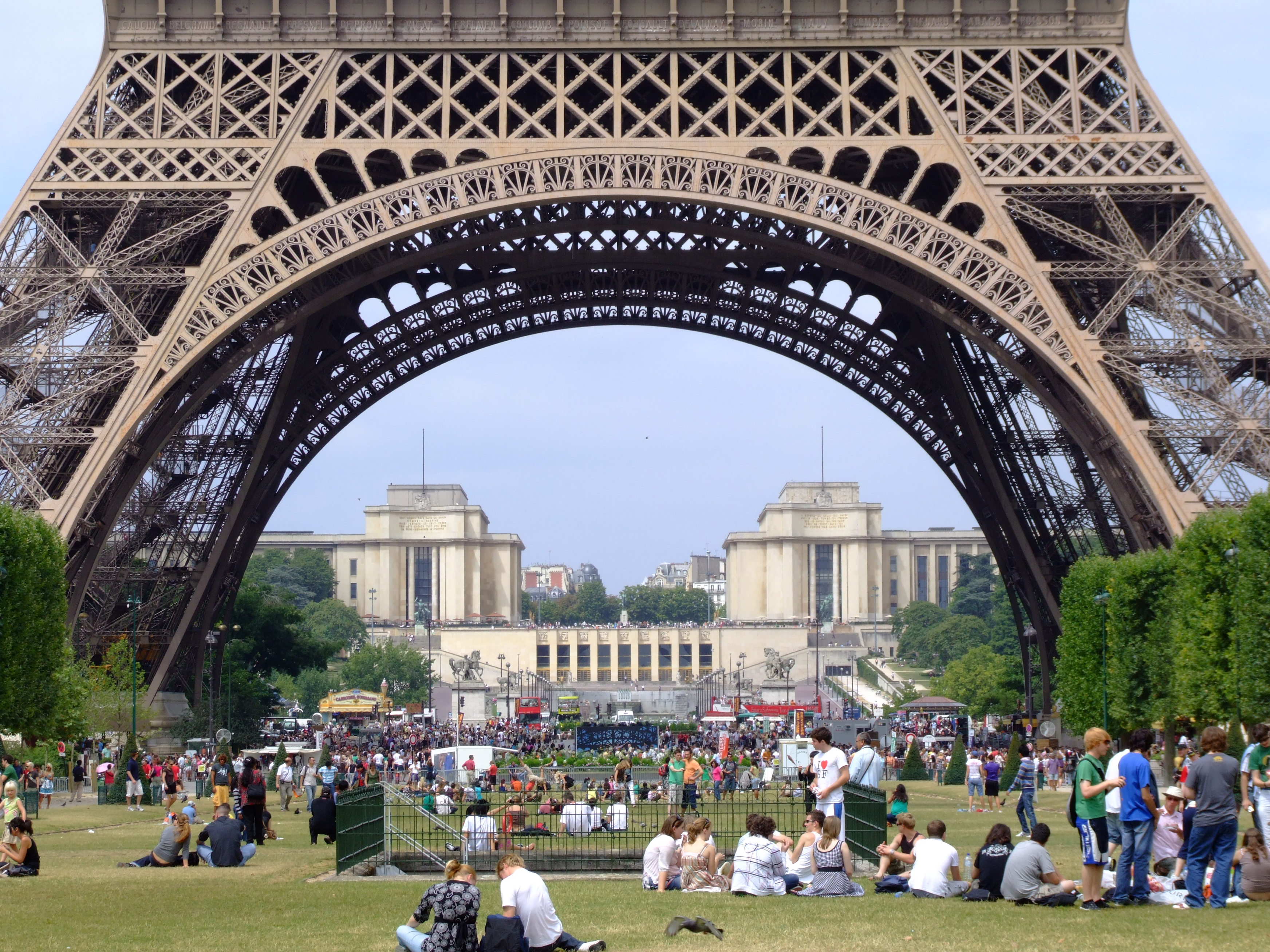 Arch of the Eiffel Tower from the southeast towards Palais de Chaillot, Paris, France.